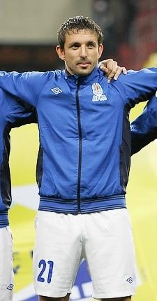 Volodimir Levin playing for Azerbaijan in an 2014 FIFA World Cup qualifier against Russia in Moscow in 2012.